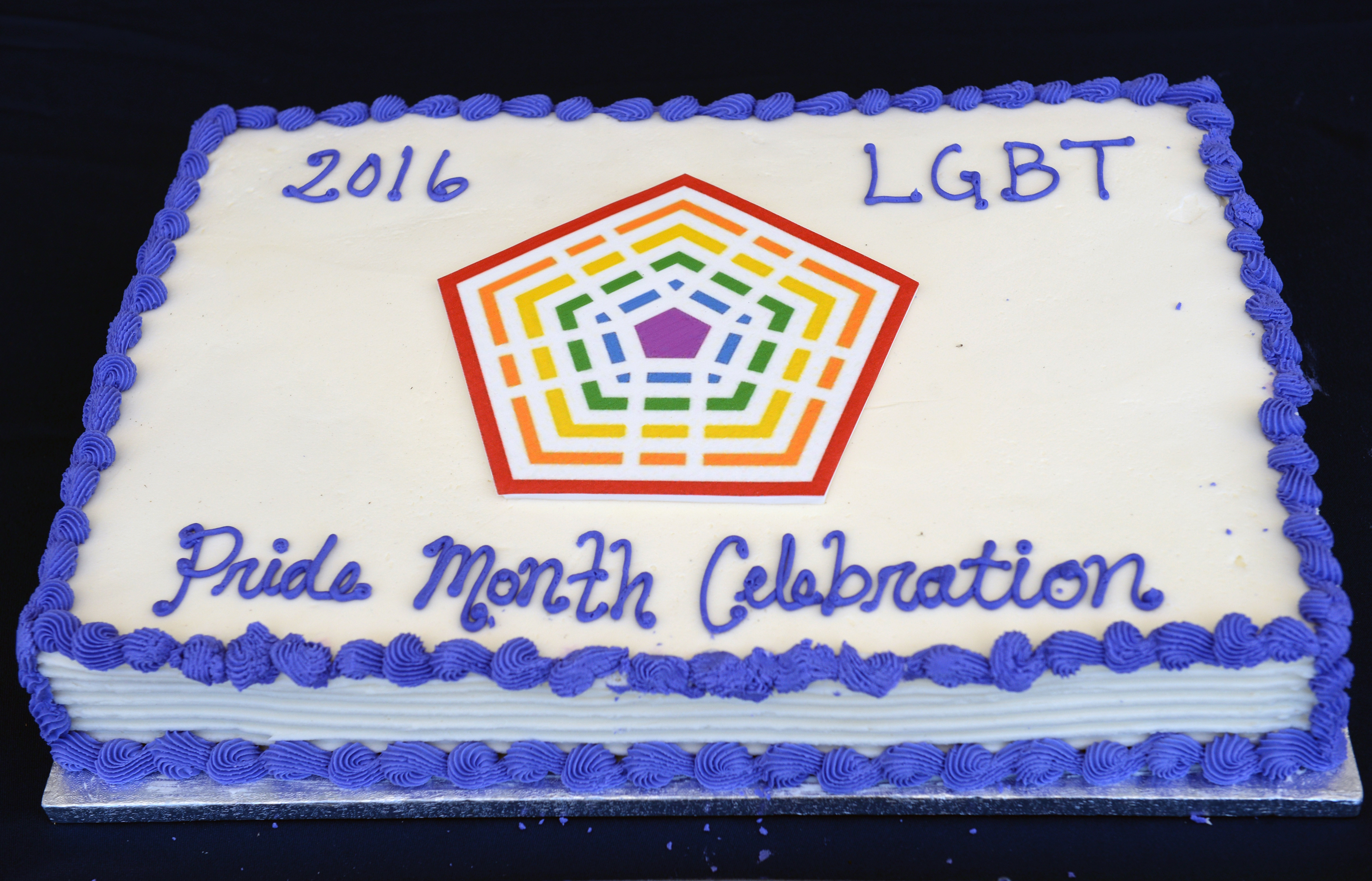 Department of Defense LGBT Pride Month Event Celebration cake. The celebration was held on the Pentagon Courtyard, June 8th, 2016. The event is an opportunity for the entire DoD community to come together and celebrate the great diversity of the American people in a festive, affirming atmosphere. President Barack Obama signed a proclamation, May 31, 2016, designating June as Lesbian, Gay, Bisexual and Transgender Pride Month. On Sept. 20, 2011, the "don’t ask, don’t tell" repeal went into full implementation, allowing lesbian, gay and bisexual service members to serve openly in the U.S armed forces. (DoD photo) Unit: DoD News